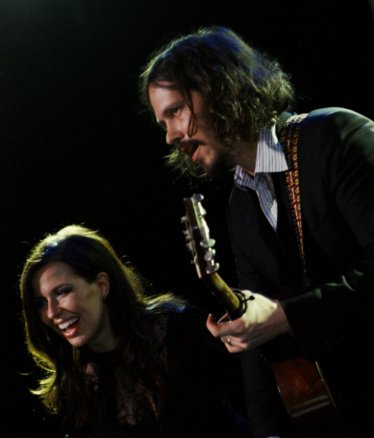 The Civil Wars performing at Academy 2, Manchester, on Friday the 16th of March.